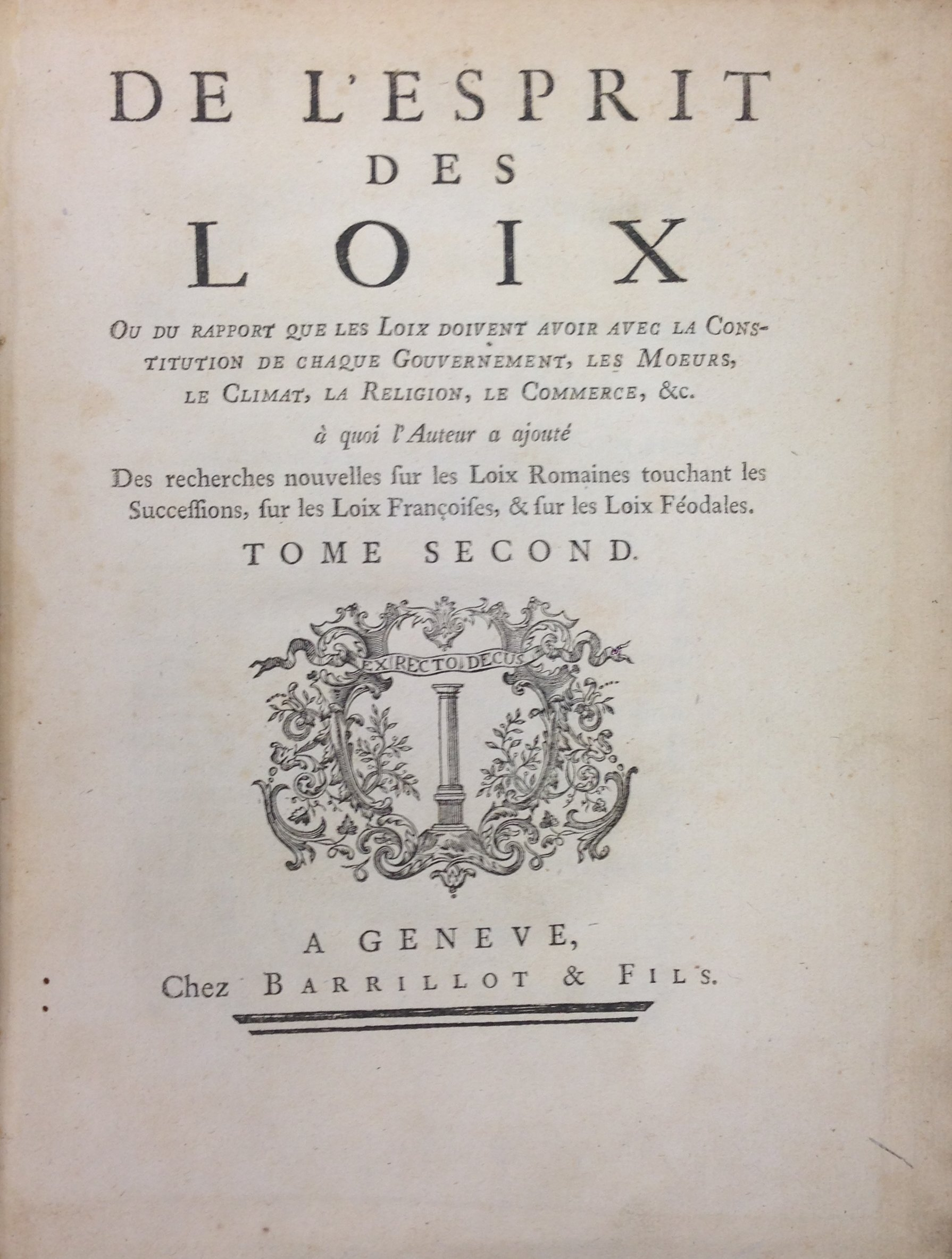 The title page of volume 2 of Charles-Louis de Secondat, Baron de La Brède et de Montesquieu (1748) De l'Esprit des loix ou du rapport que les Loix doivent avoir avec la Constitution de chaque Gouvernement, les Moeurs, le Climat, la Religion, le Commerce, &c : à quoi l'Auteur a ajouté Des recherches nouvelles sur les Loix Romaines touchant les Successions, sur les Loix Françoises, & sur les Loix Féodales [The Spirit of the Laws, or the rapport that the Laws should have with the Constitution of each Government, the Customs, the Climate, the Religion, the Commerce, &c: to which the Author has added new research on the Roman Laws concerning Succession, on French Laws, and on the Feudal Laws], Geneva: Barrillot & Fils OCLC: 150438488.